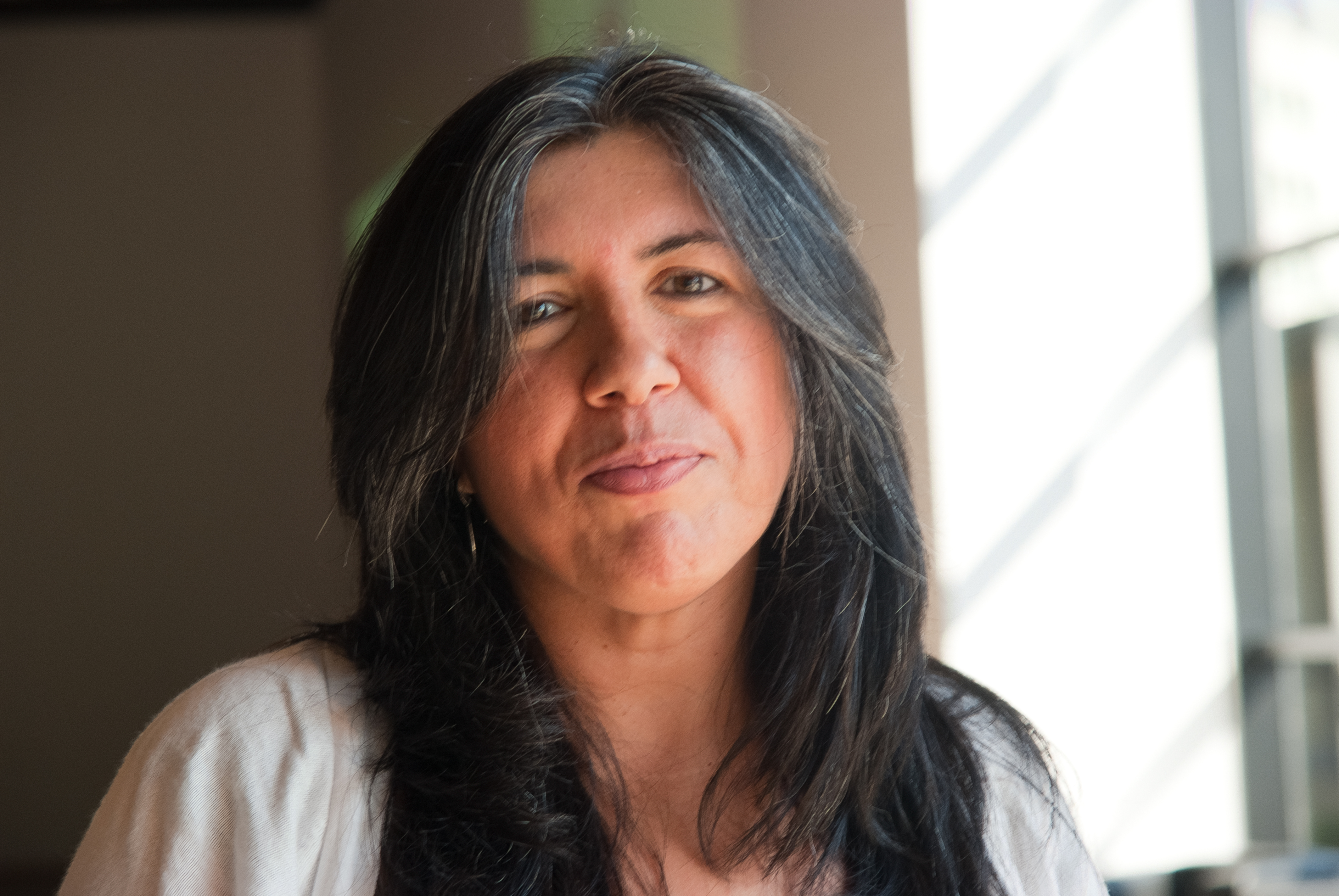 Photograph of Begoña Paz